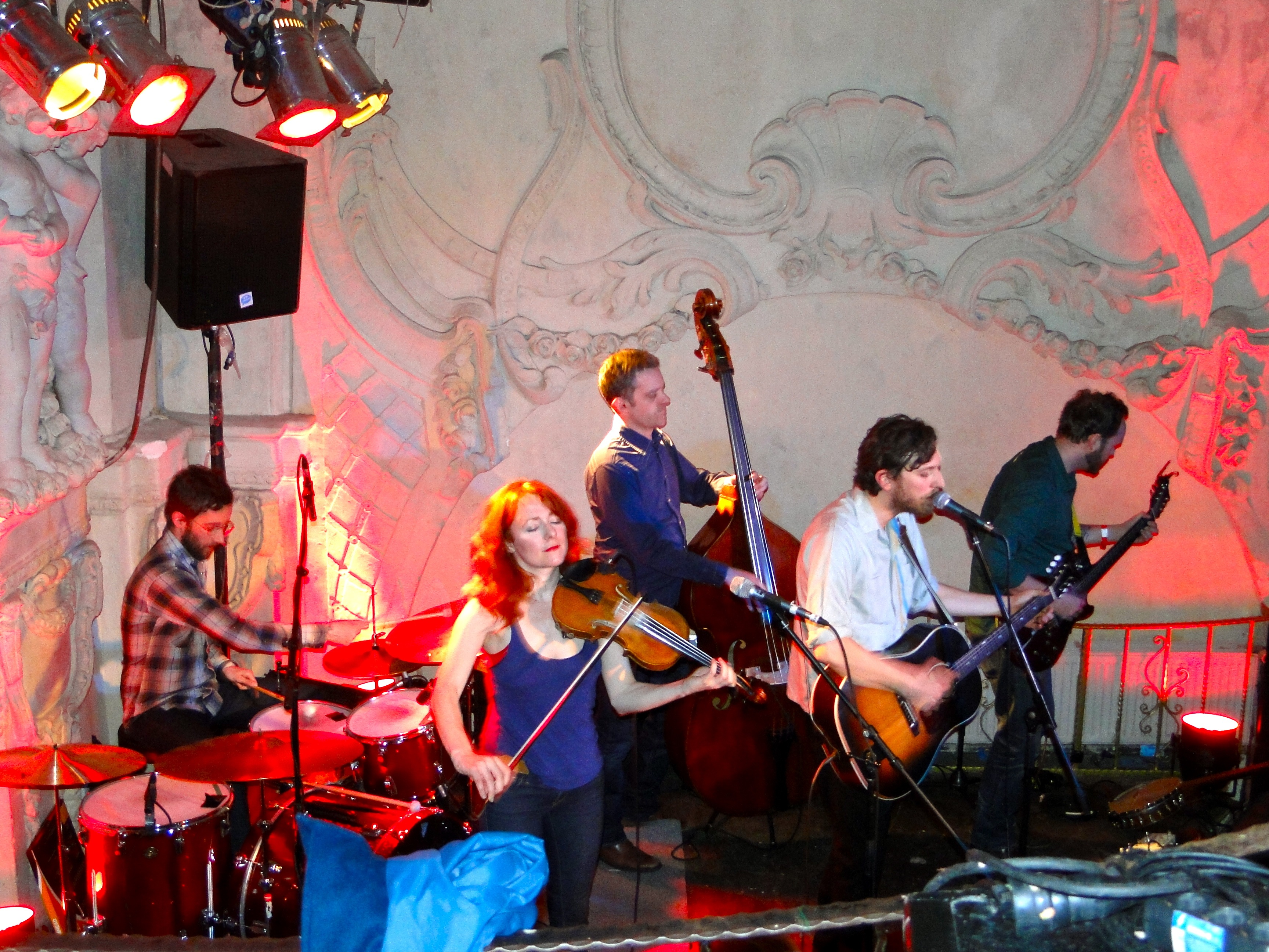 Great Lake Swimmers in Germany, Hamburg, Prinzenbar, April 2012.jpg